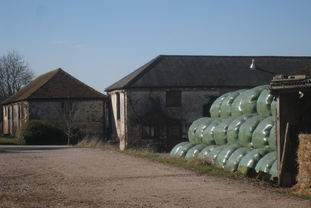 Barn at Horsted Pond Farm, Lewes Road, Uckfield, East Sussex Possibly an oast house.